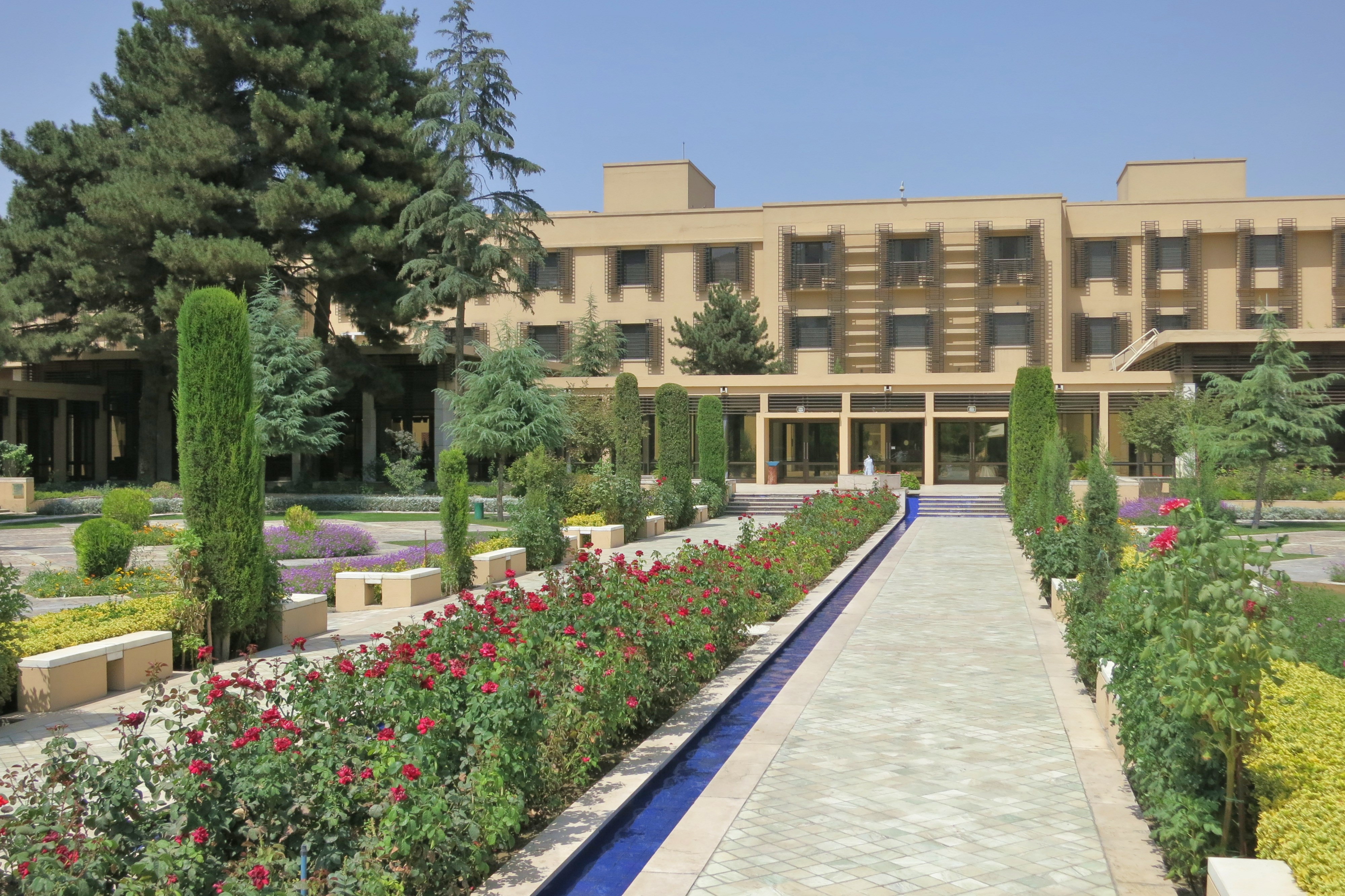 Garden area of the Serena Hotel in Kabul, Afghanistan